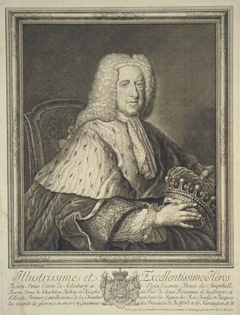 Thomas Bruce, 2nd Earl of Ailesbury (1656-1751)